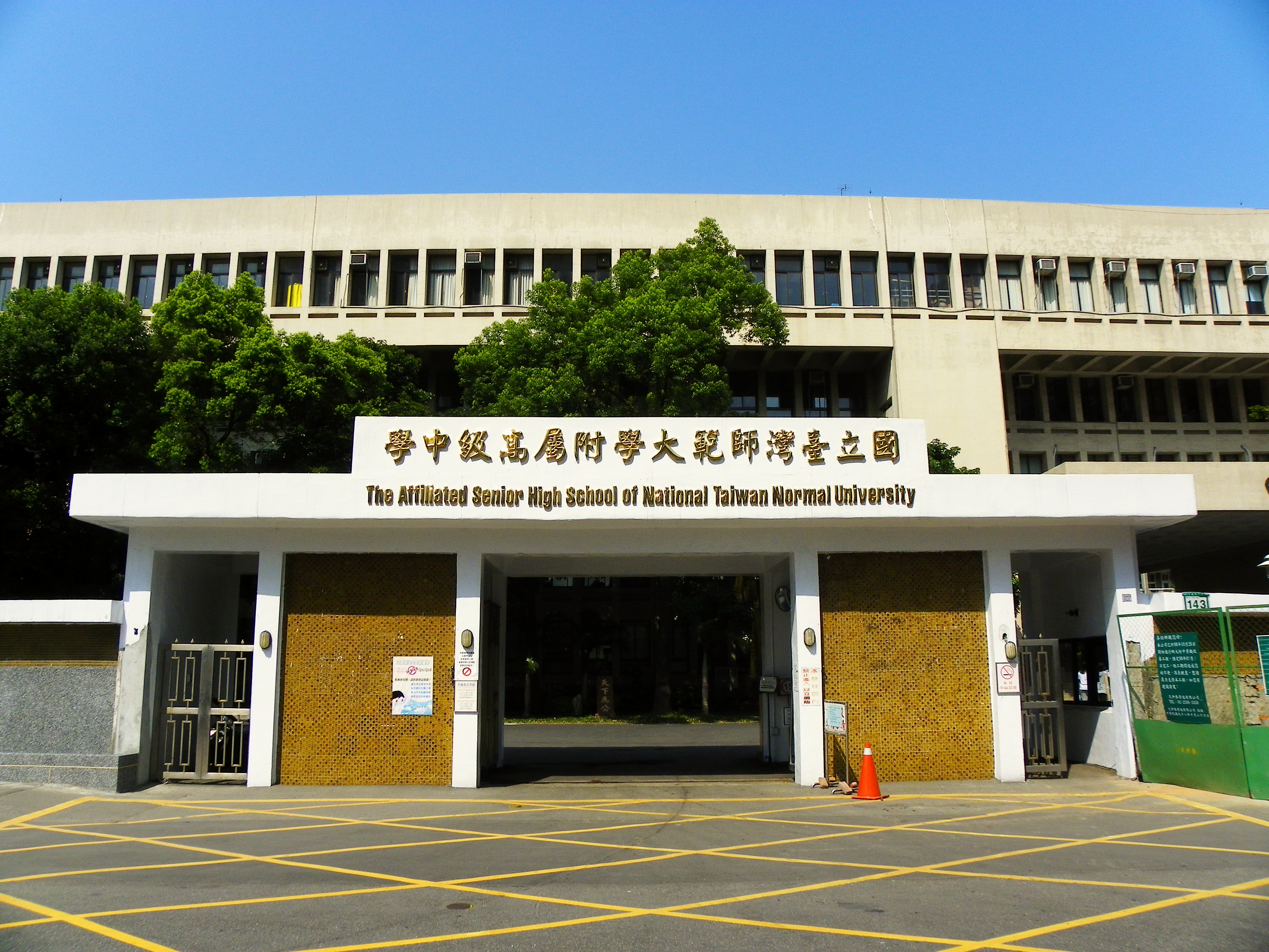 The main gate of The Affiliated Senior High School of National Taiwan Normal University.